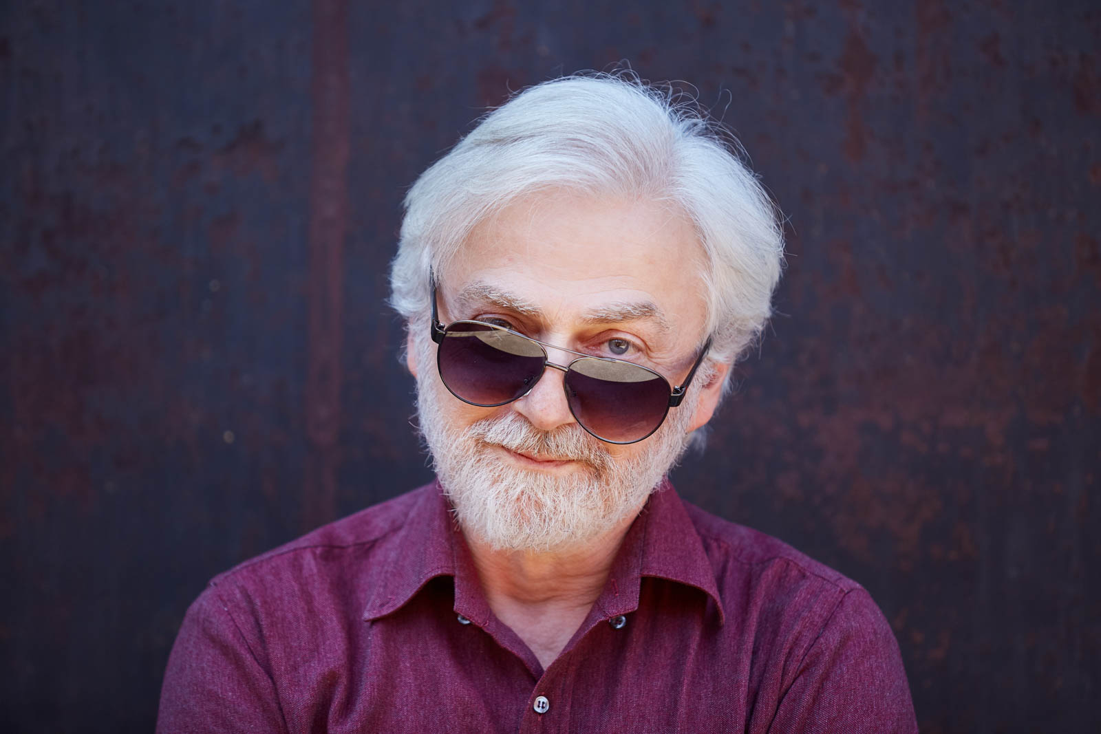 SWITZERLAND BASIL KRYSTIAN ZIMERMAN APRIL 2018